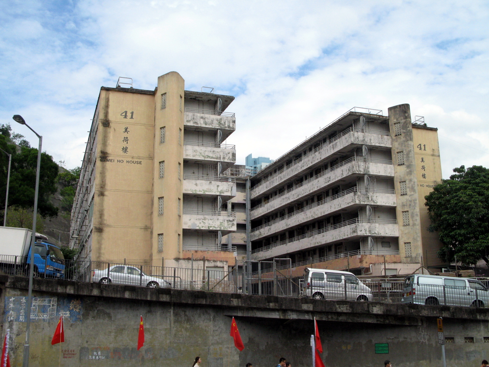 HK Sham Shui Po Mei Ho House in 2007